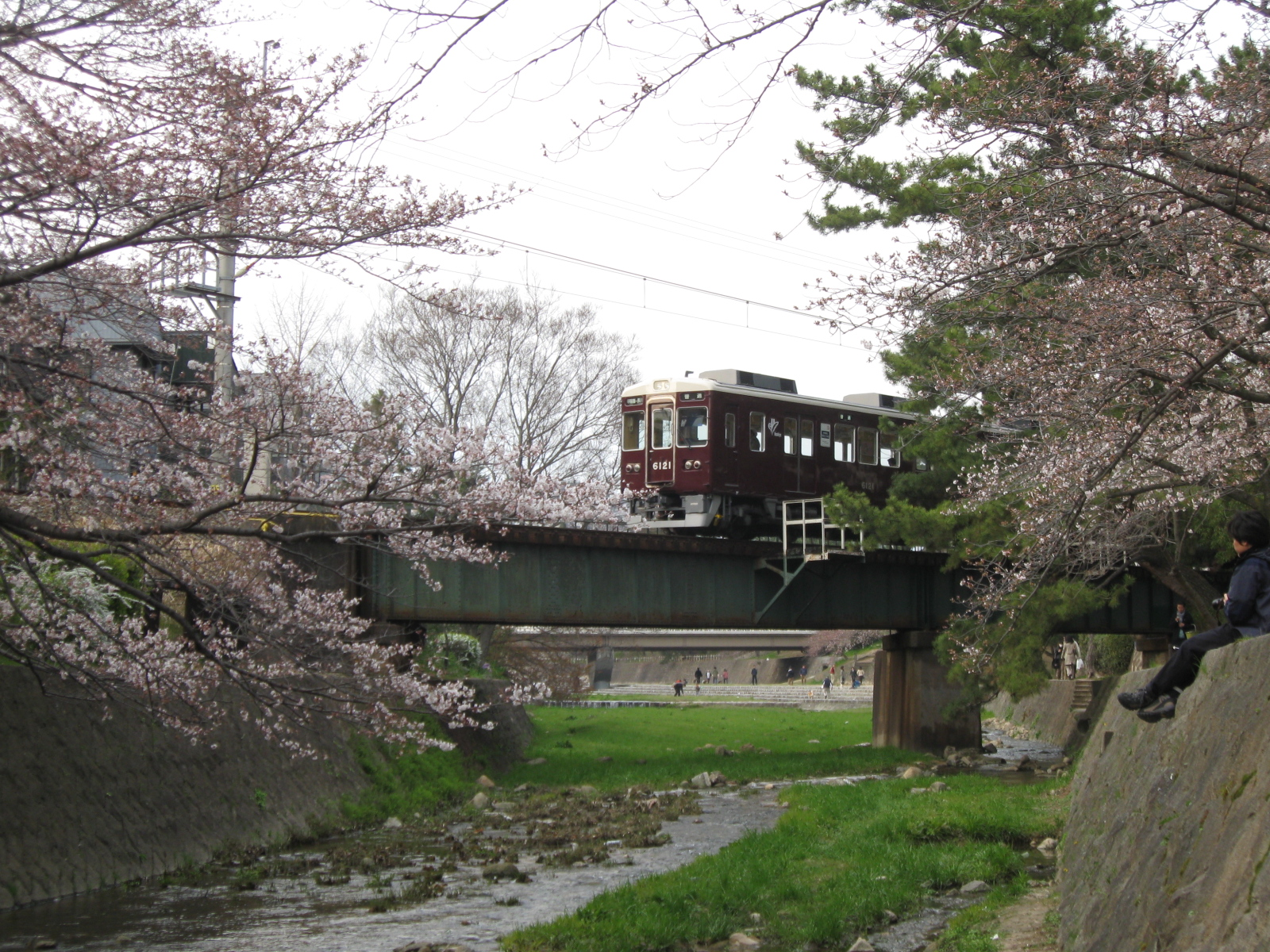 Hankyu Railway 6000 series EMU set 6021 on the Hankyu Koyo Line between Kurakuenguchi and Koyoen stations